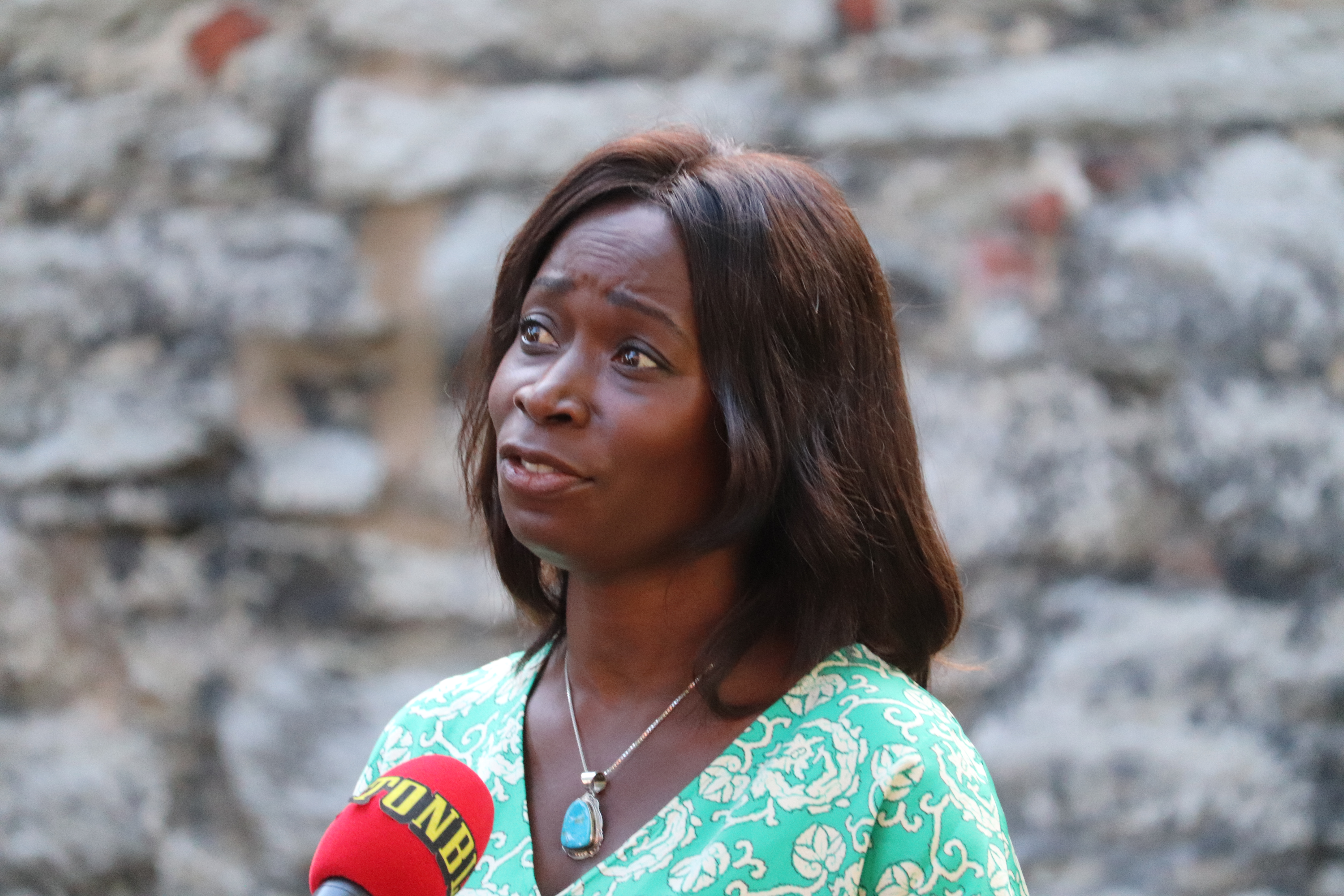 Nyamko Sabuni i Almedalen 2019.